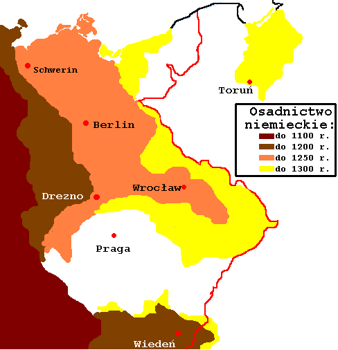 German conquests and settlement up to year 1300 up to 1100 up to 1200 up to 1250 up to 1300